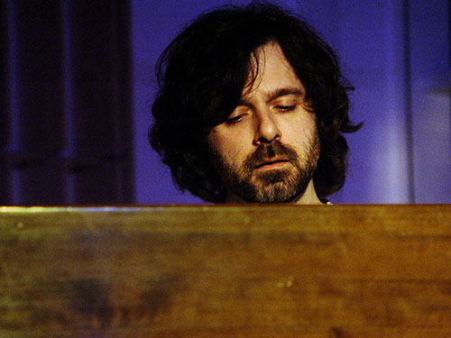 Sam Yahel in Aarhus, Denmark